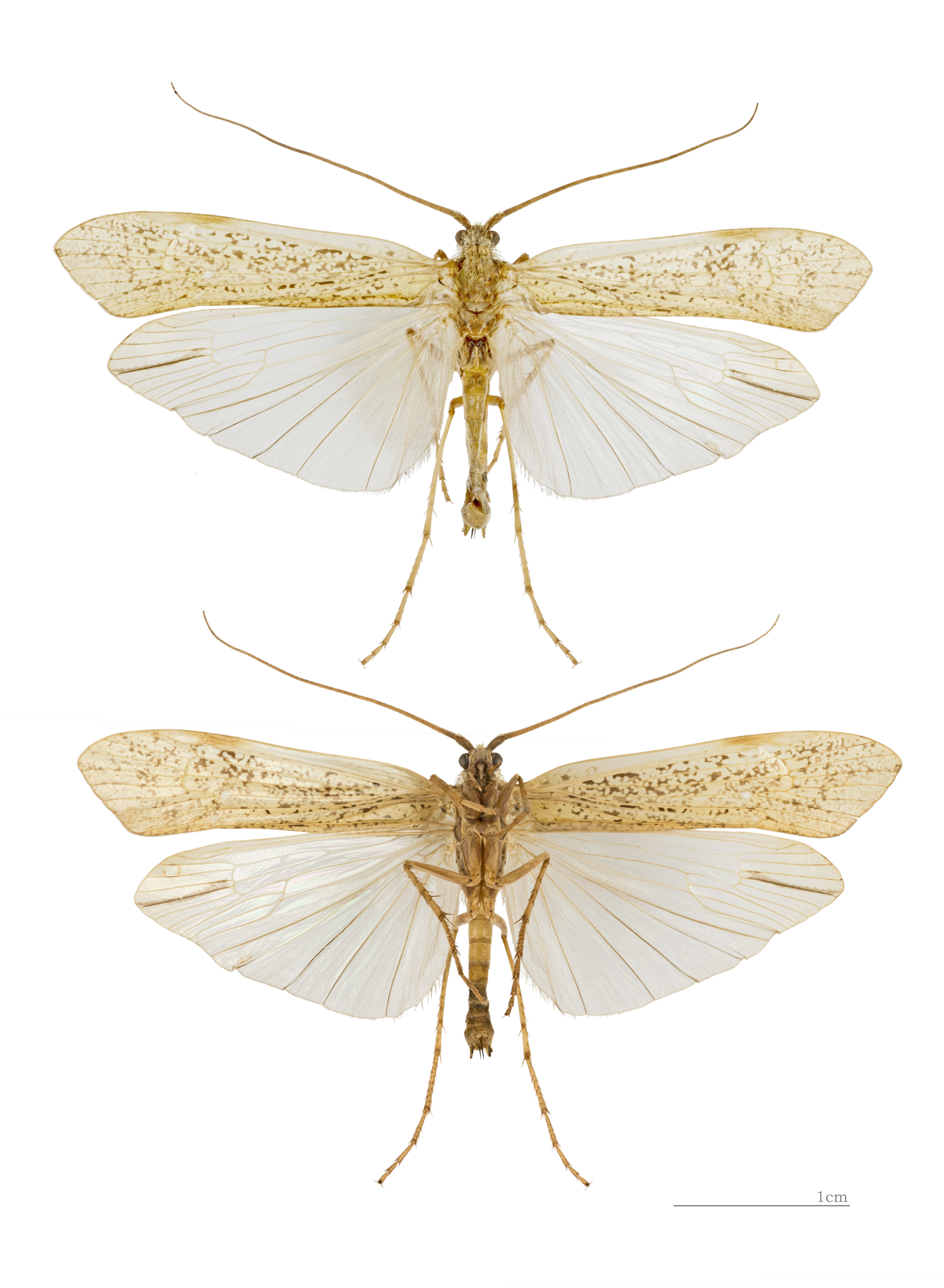 Grammotaulius nigropunctatus. Two views of same specimen.